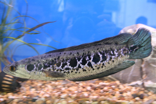 A five-spotted snakehead fish (Thai: ปลาช่อนห้าจุดอินโดนีเซีย) or Channa pleurophthalma at the 20th Pramong Nomklao fish show event at the Future Park Rangsit, Thailand, in July 2008. This specimen was reportedly from Indonesia. Picture taken by myself.